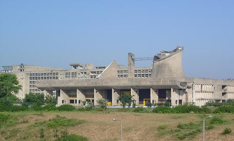 Punjab Vidhan Sabha